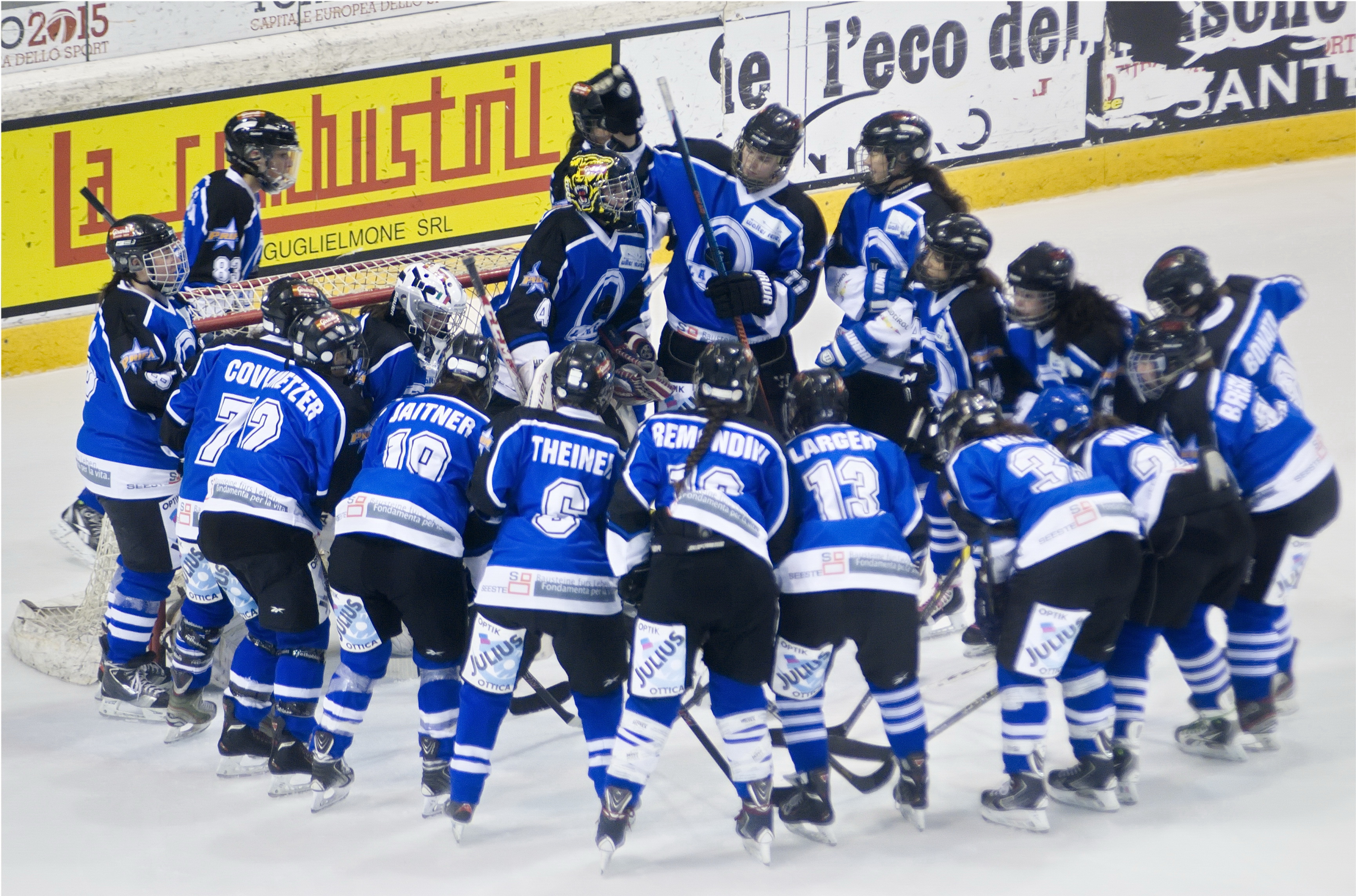 Women's ice hockey Serie A match between Torino Bulls and HC Lakers players November 14, 2015